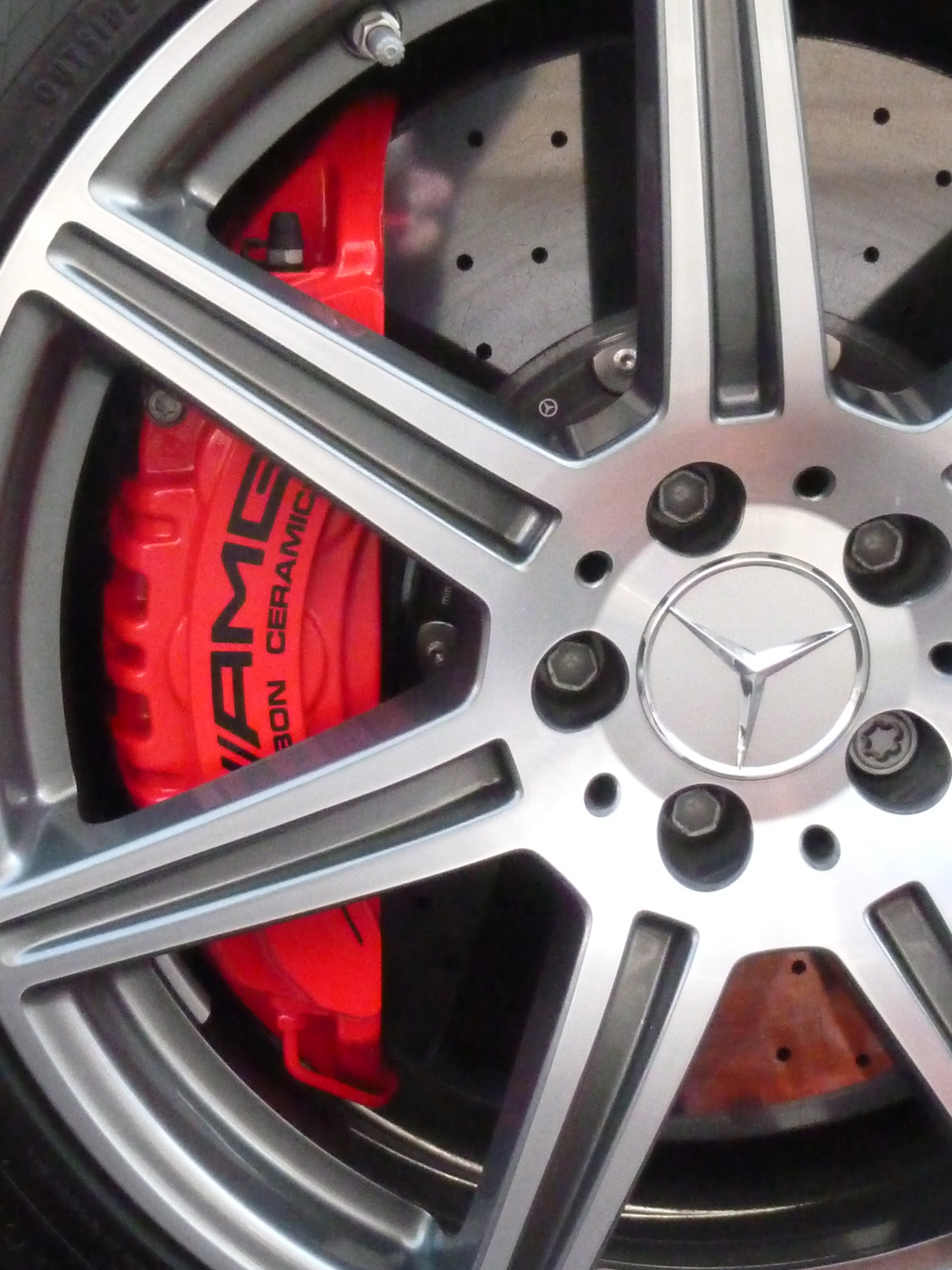 Mercedes SLS White